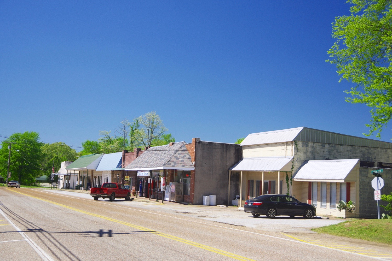 Businesses along State Route 114 in Scotts Hill, Tennessee, United States.